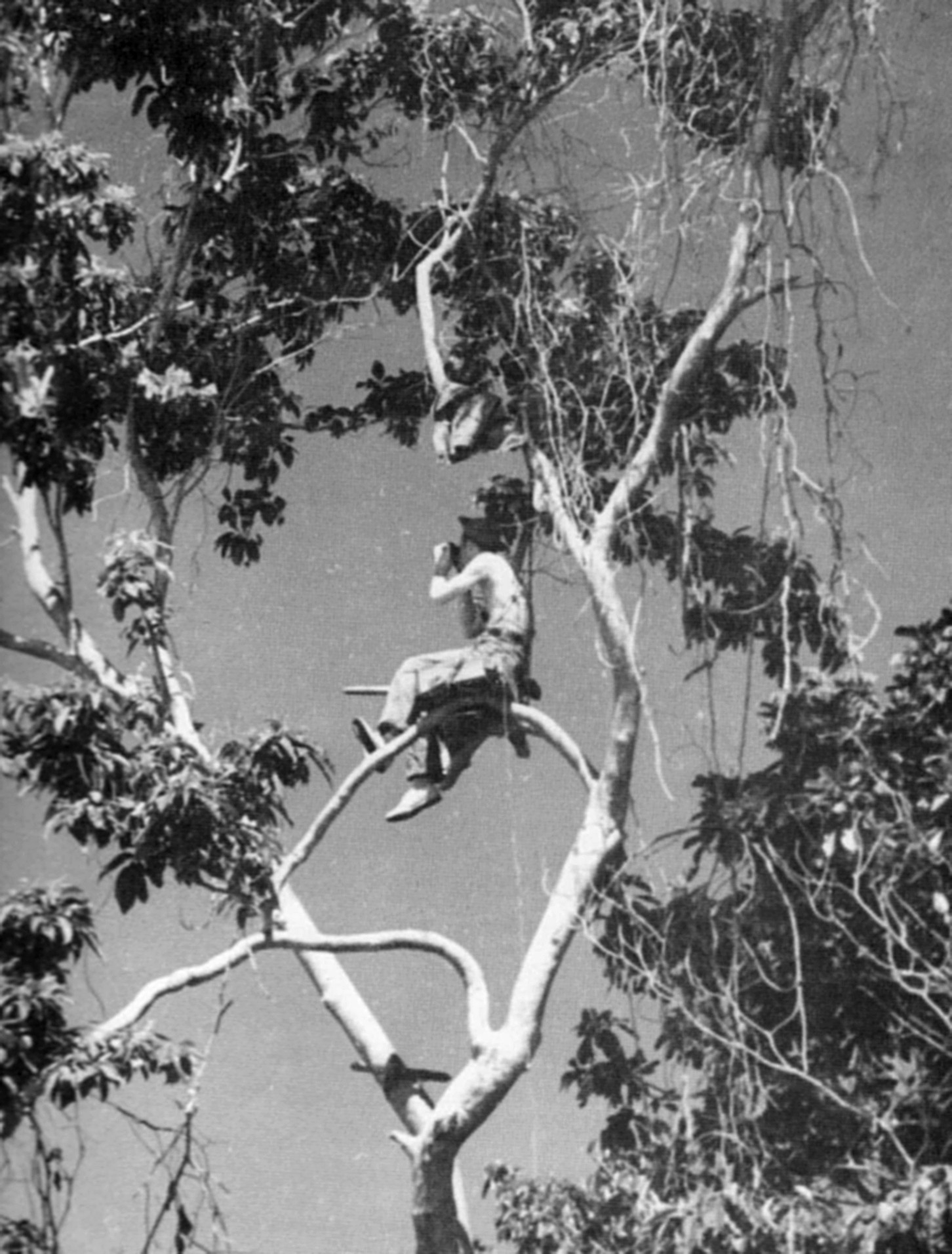 A U.S. Marine artillery forward observer climbs a tree to get a better view of the battlefield in the Koli Point area of Guadalcanal in November, 1942.